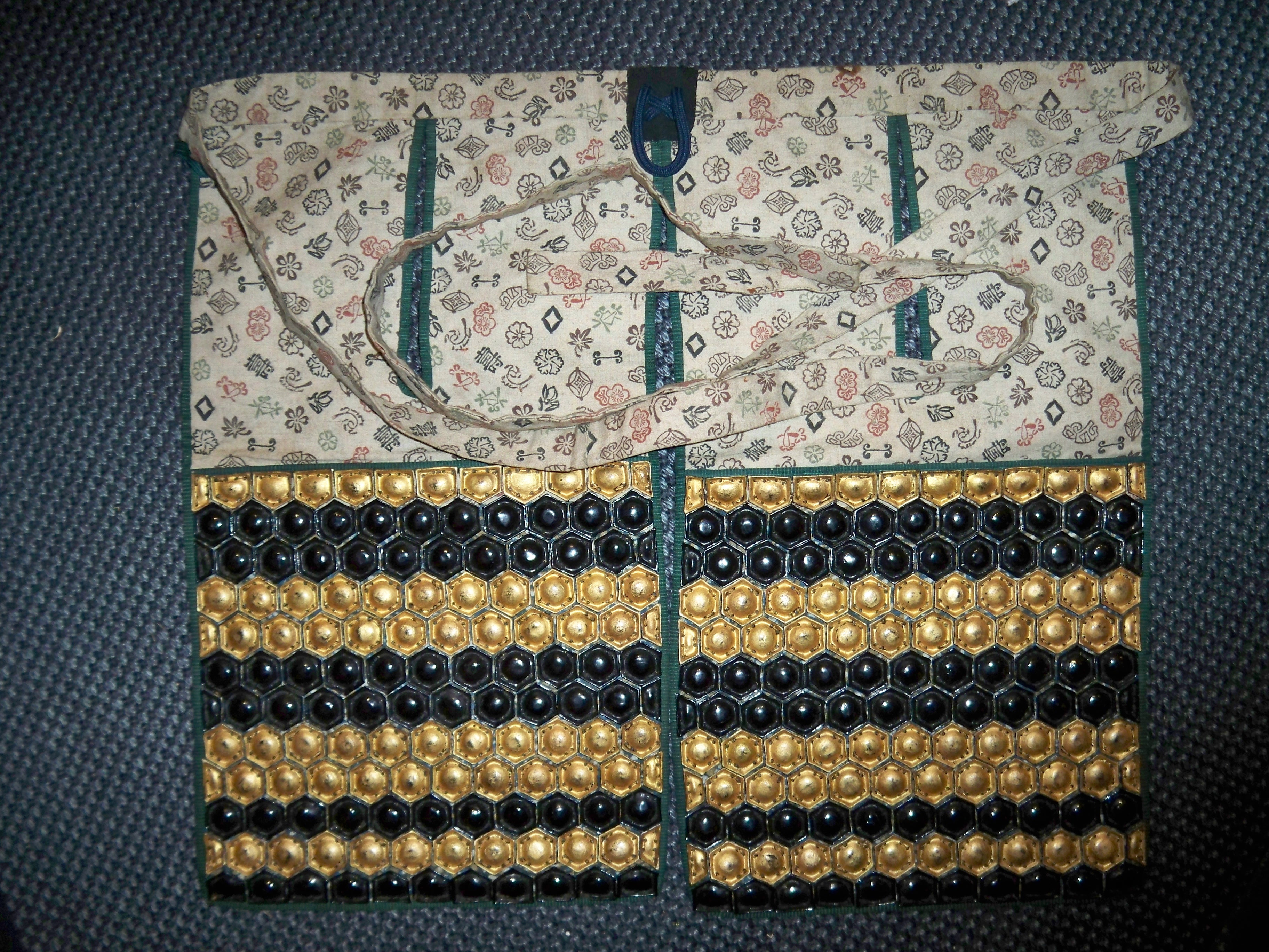 Japanese (samurai) Edo period kikko haidate, thigh armor with small hexagon hardened leather plates "kikko".